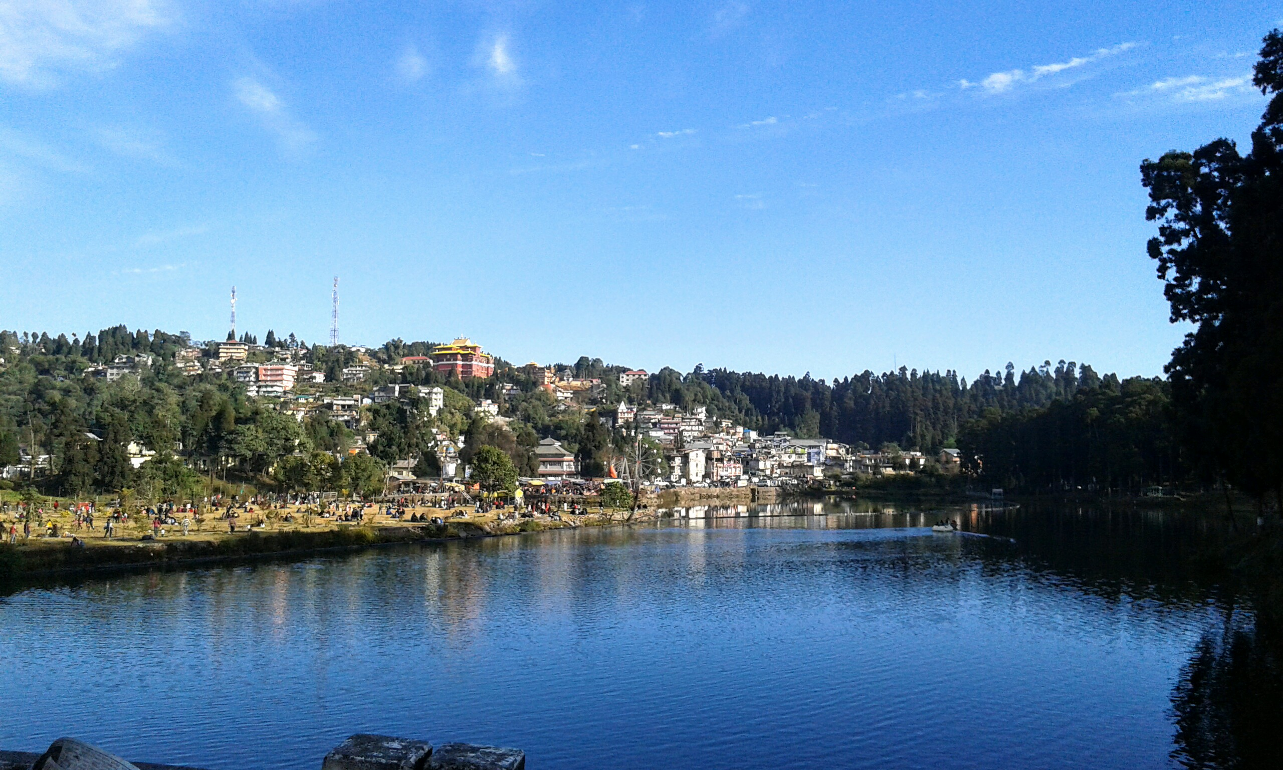 Sumendu Lake is one the famous tourist destination of Darjeeling ,It's Surrounded by Savitri Garden,the lake is so beautiful and whole of the year is fulfil with the tourist.And it's situated in the centre of Mirik town.It's a superb beauty of nature .